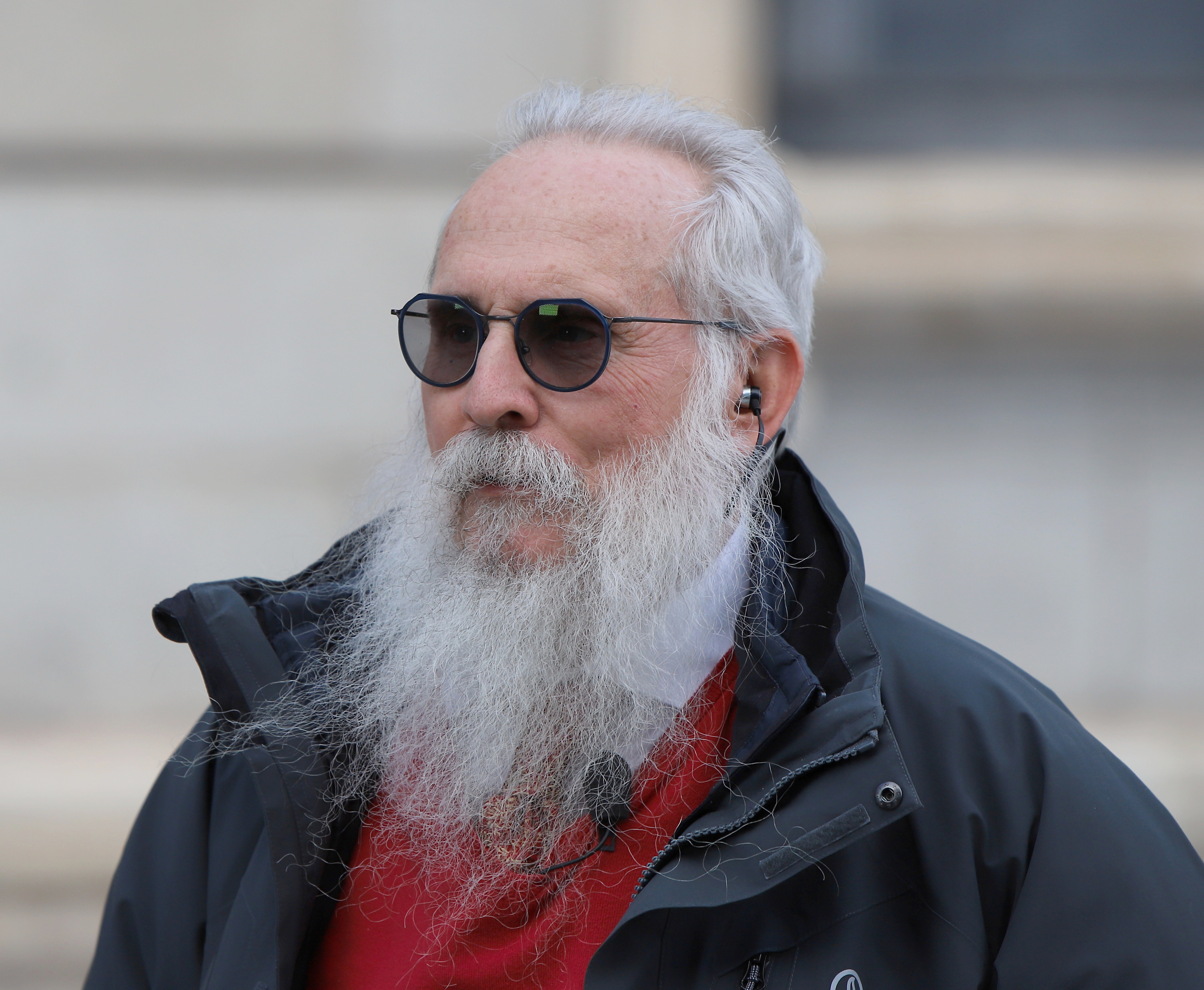 Agustín Javier Zamarrón during an interview in front of the Parliament building after the first session of the newly elected Congress.